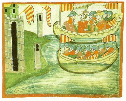 Sicilian Vespers. Peter III in Trapani (1282).